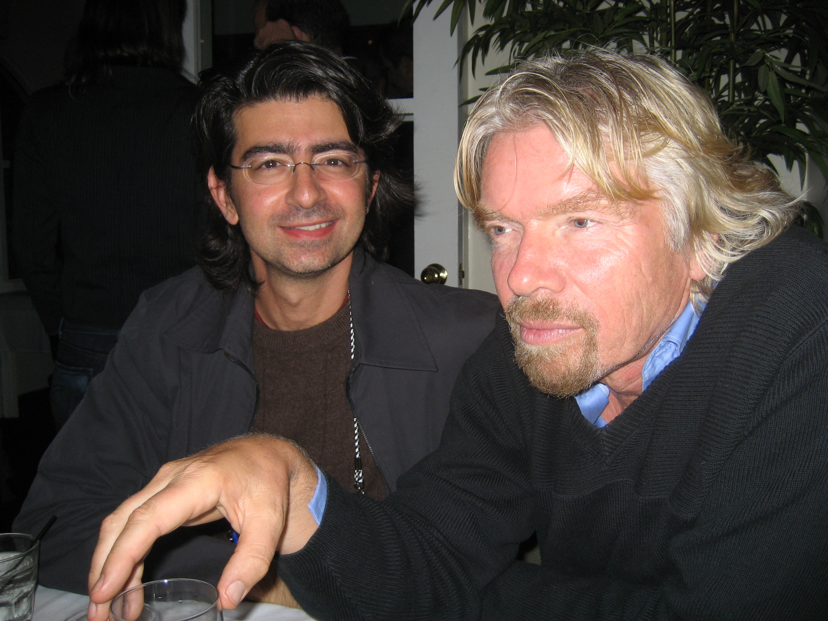 Pierre Omidyar and Richard Branson